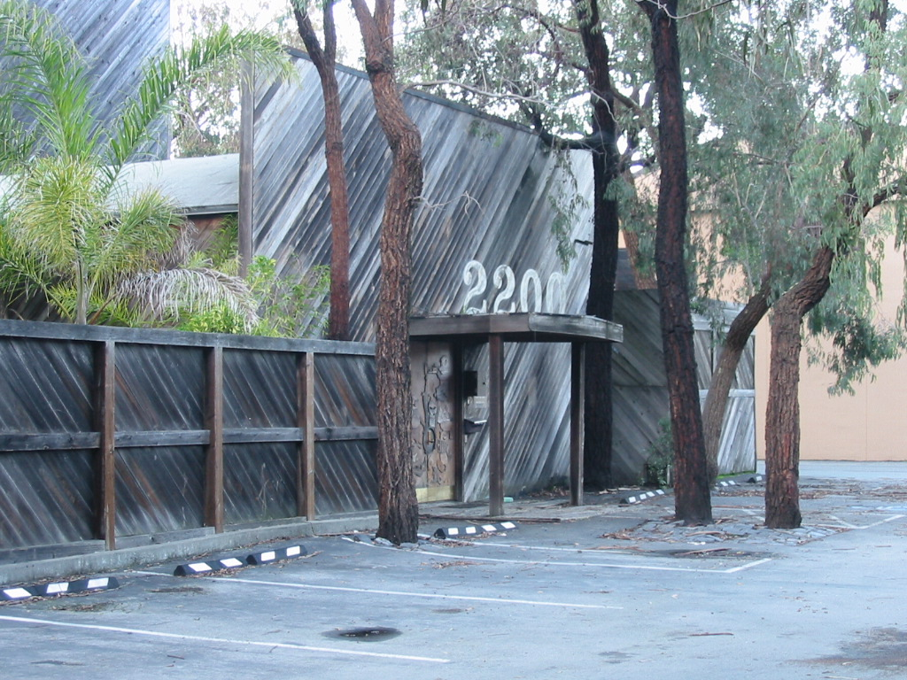 Snapshot of the Record Plant, a.k.a. The Plant, a recording studio in Sausalito, California. Photo shows the front of the building.